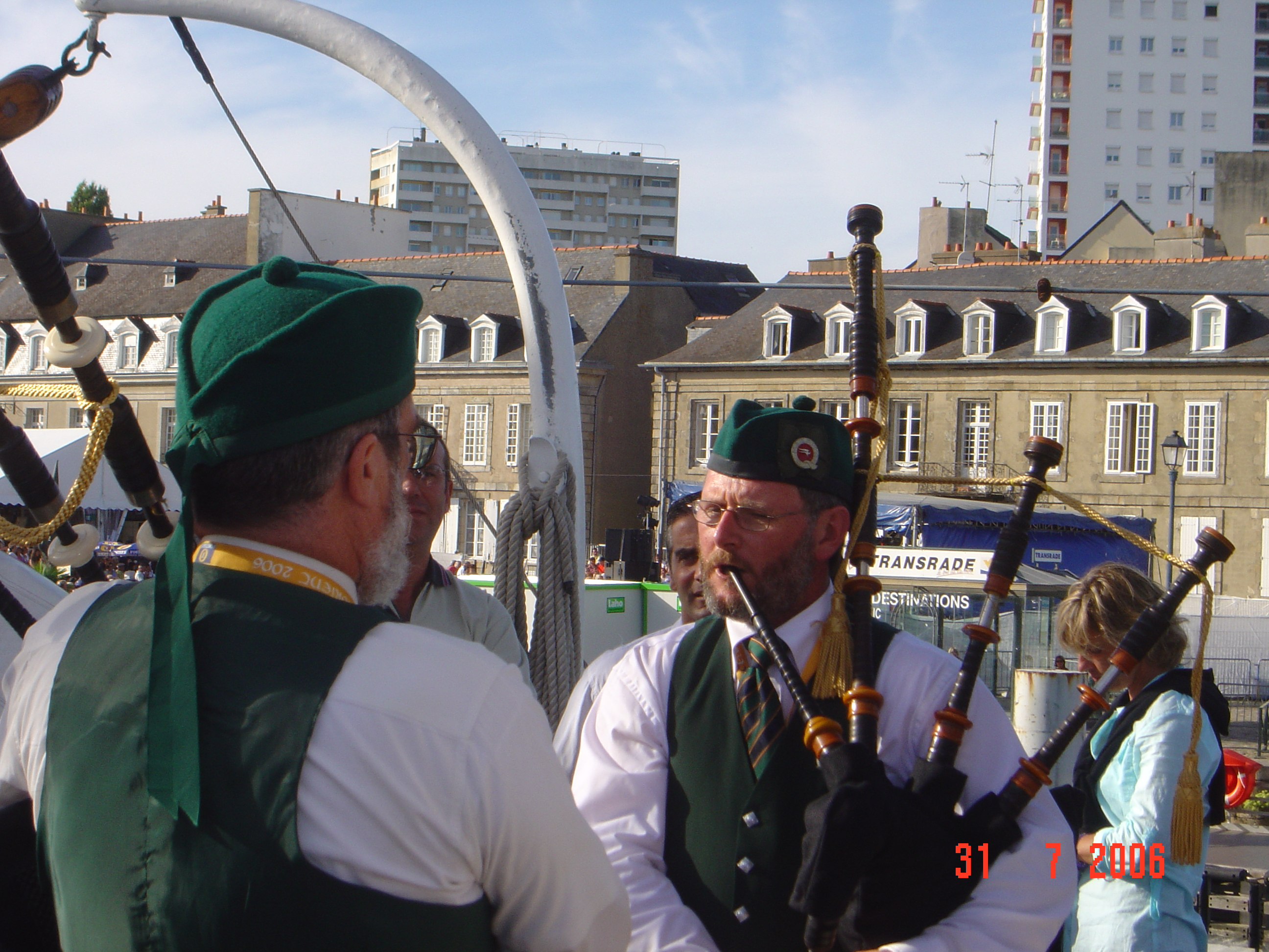 Australian pipers from the Queensland Irish Pipe band playing abord the Belem Ship during the Interceltic Festival in Lorient, France, in 2006.